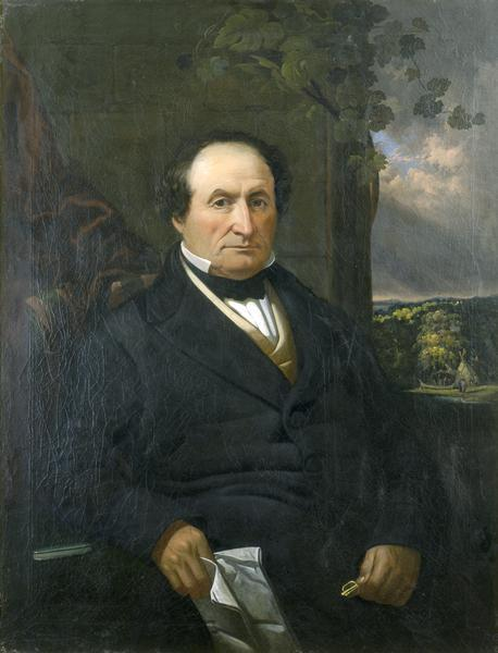 Painted portrait of Wisconsin politician Solomon Juneau (1793–1856) by Samuel Marsden Brookes (1816–1892)